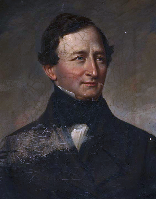 Ignacy Turkułł